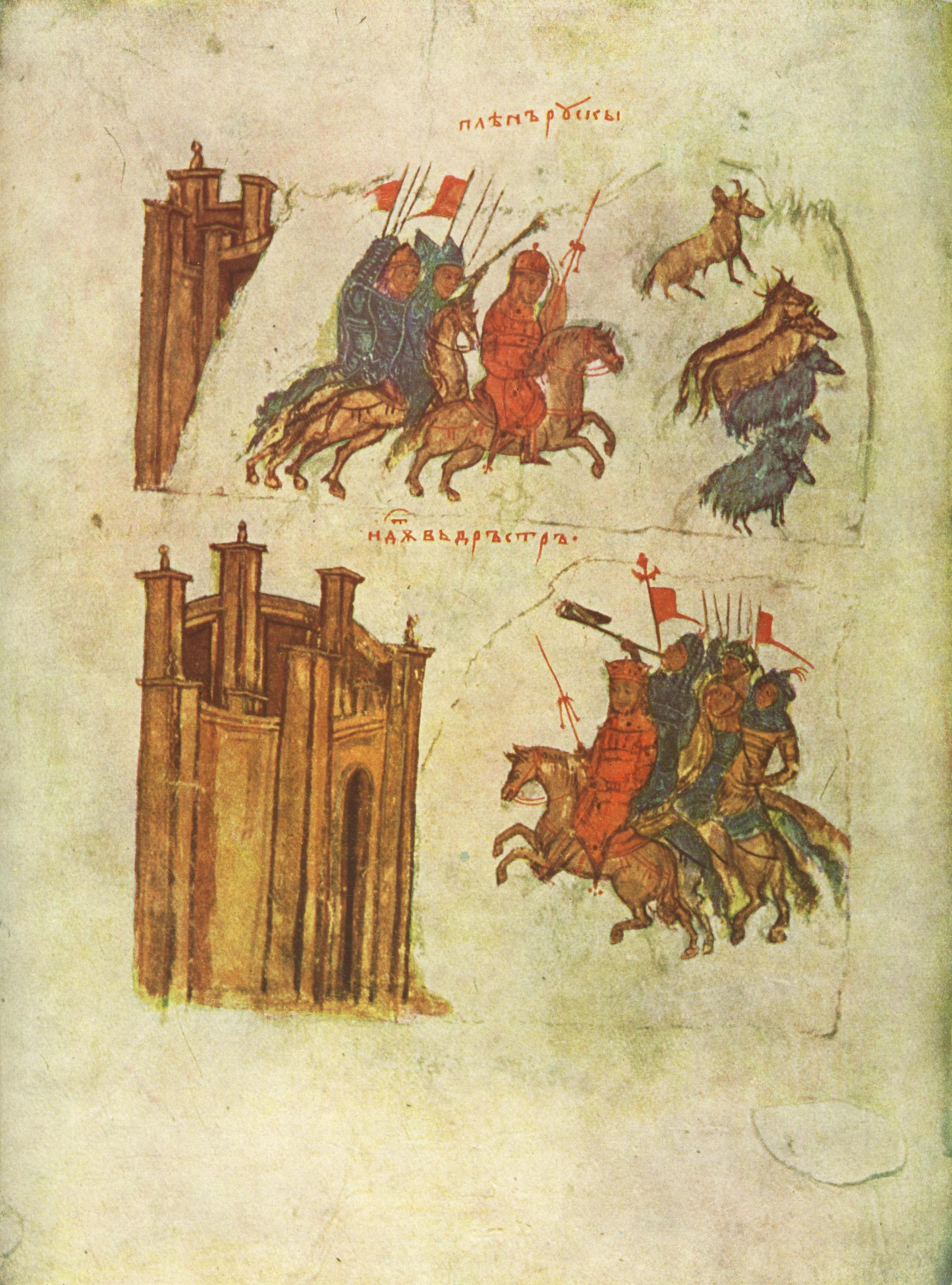 Miniature 64 from the Constantine Manasses Chronicle, 14 century: Invasion of the Russians and the Siege of Dorostolon led by emperor John I Tzimiskes.